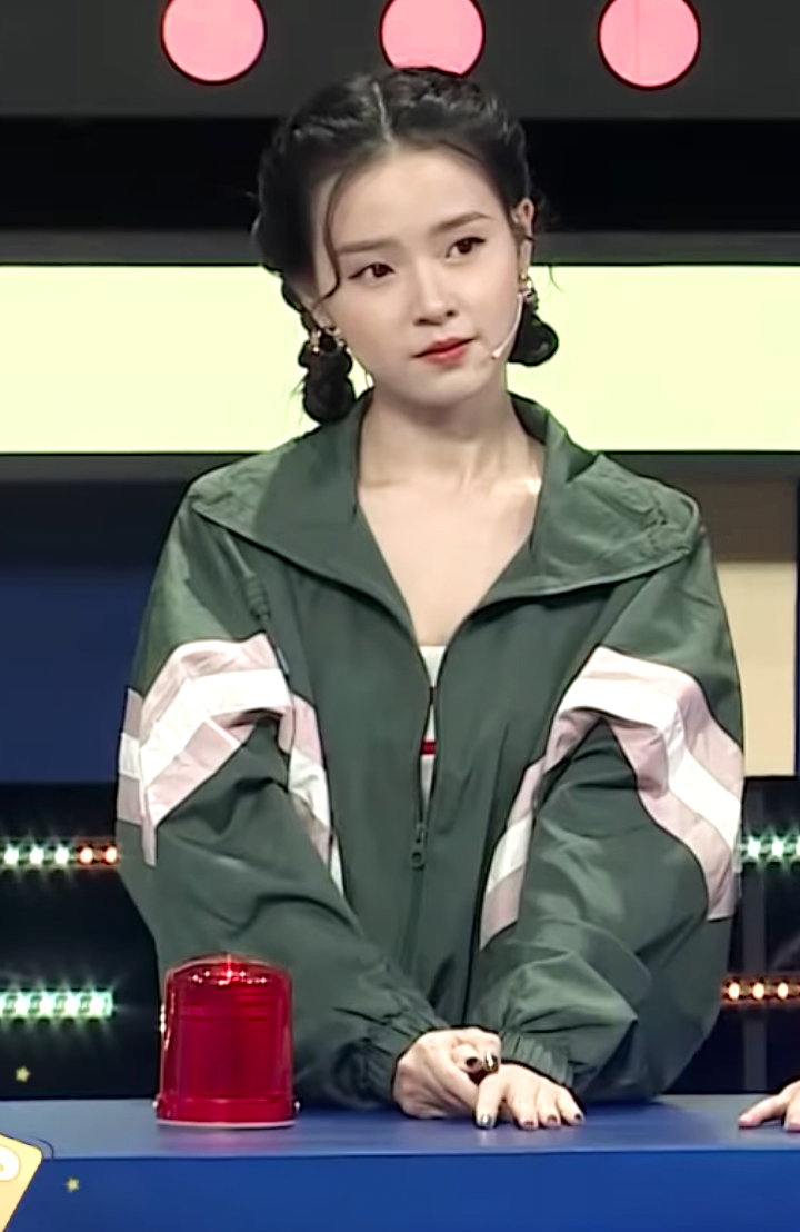 A screenshot of a video of Midu on the Vietnamese gameshow, Úm Ba La Ra Chữ Gì?.